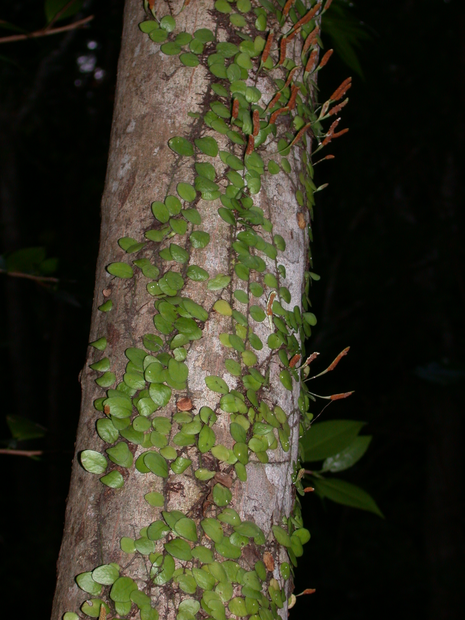 Name Lemmaphyllum_microphyllum Japanese name Mamezuta Date;2005,12,05.Susami town,Wakayama Pref. Japan Author;Keisotyo